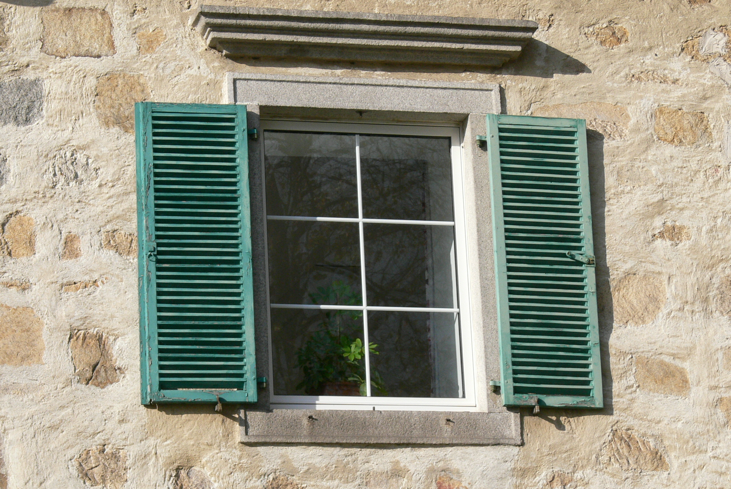 Kleinzell im Mühlkreis ( Upper Austria ). Gneisenau castle - Window.